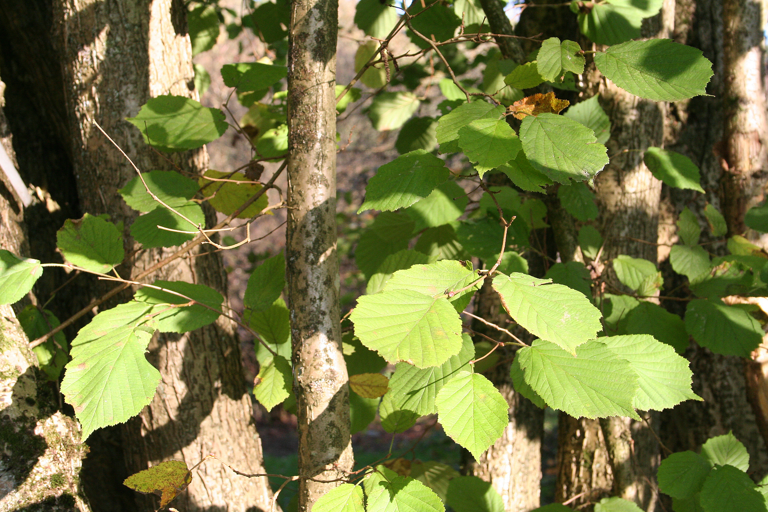 Chinese Hazel.